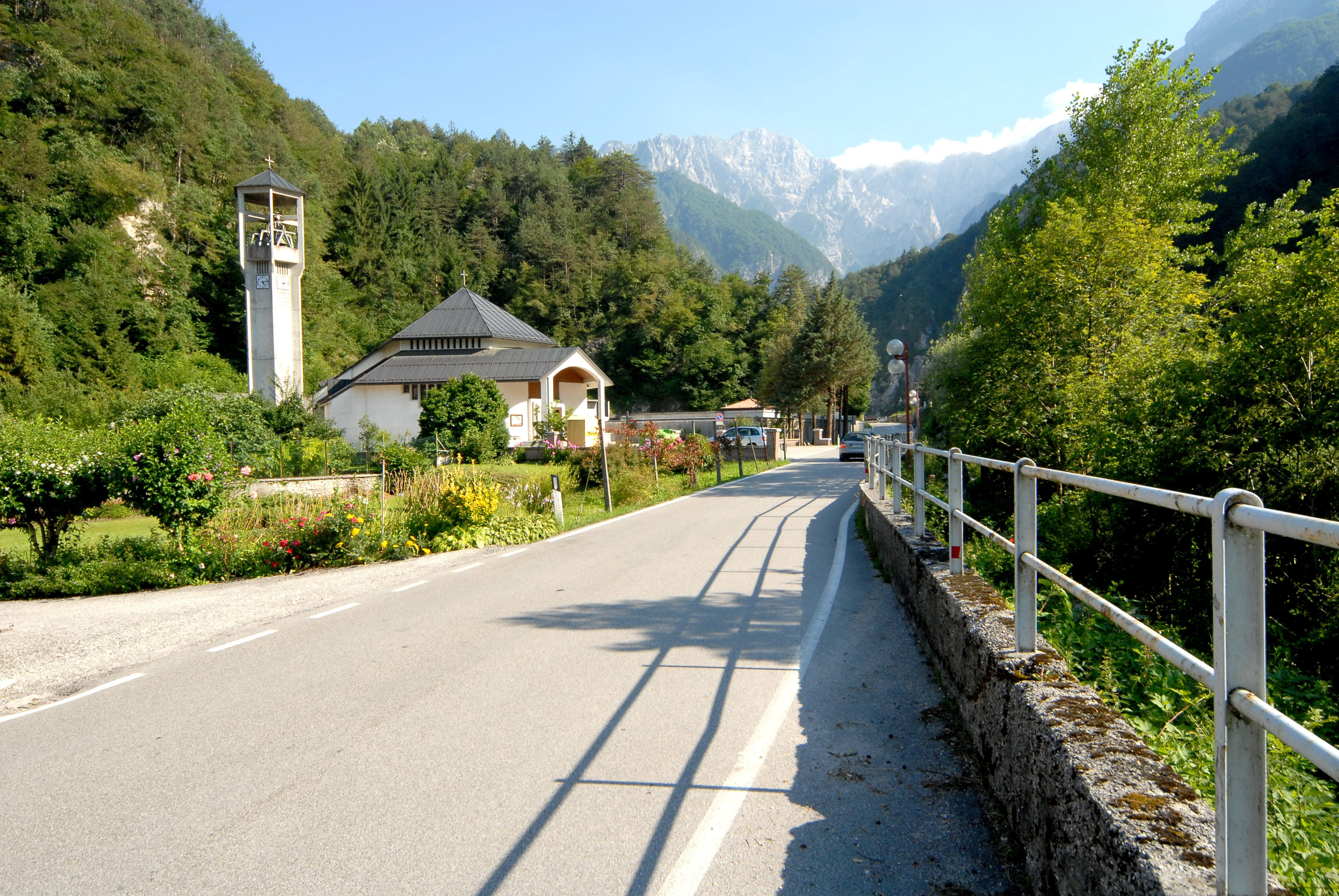 Road that leads to the Resia valley at Resiutta in Canal del Ferro / Friuli-Venezia Giulia / Italy / EU.